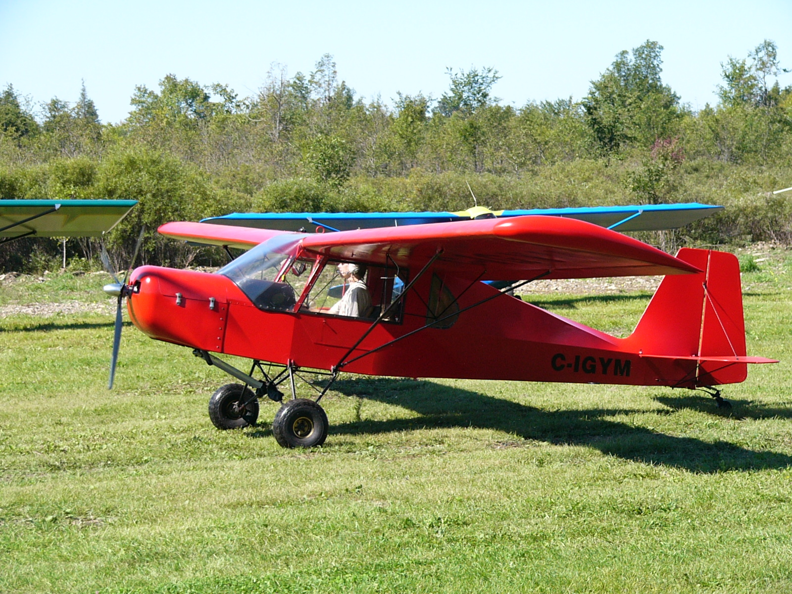 L'il Hustler Aviation L'il Buzzard at Carleton Place Fly-in, Carleton Place Airport, Ontario, Canada.